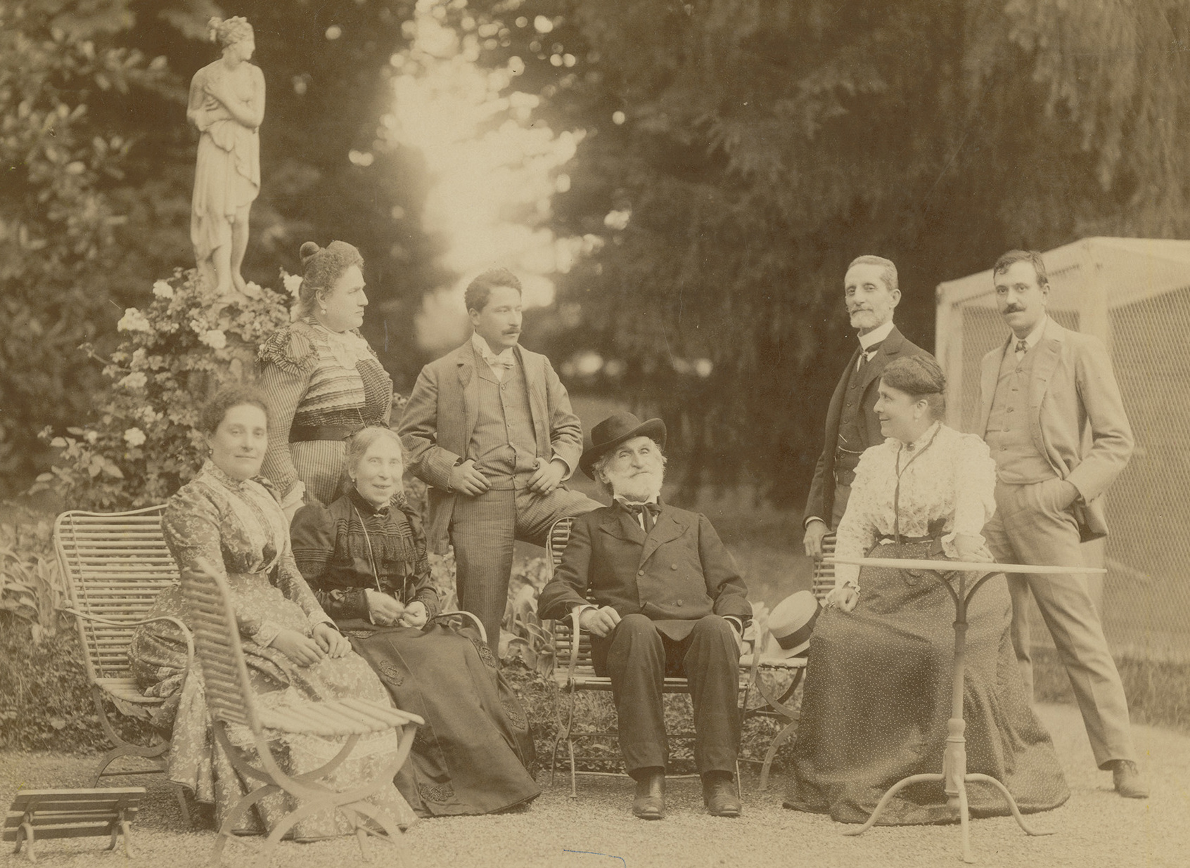 Portrait of Maria Carrara Verdi, Barberina Strepponi, Giuseppe Verdi, Giuditta Ricordi, Teresa Stolz, Umberto Campanari, Giulio Ricordi, Leopoldo Metlicovitz. Photo by Giulio Rossi, Sant'Agata, 1900.